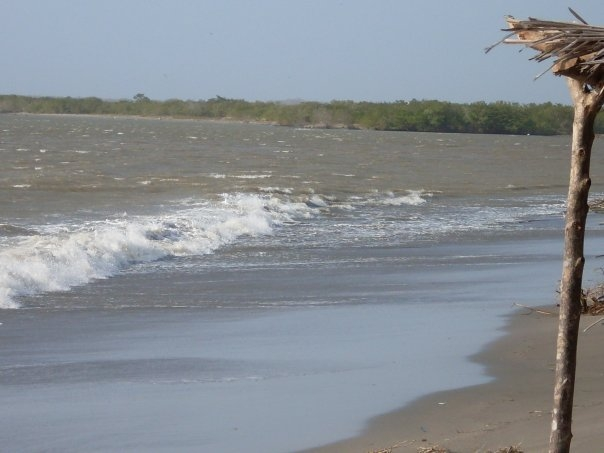 es el mar de loma de arena es la mayor parte en que los turistar pretenden llegar